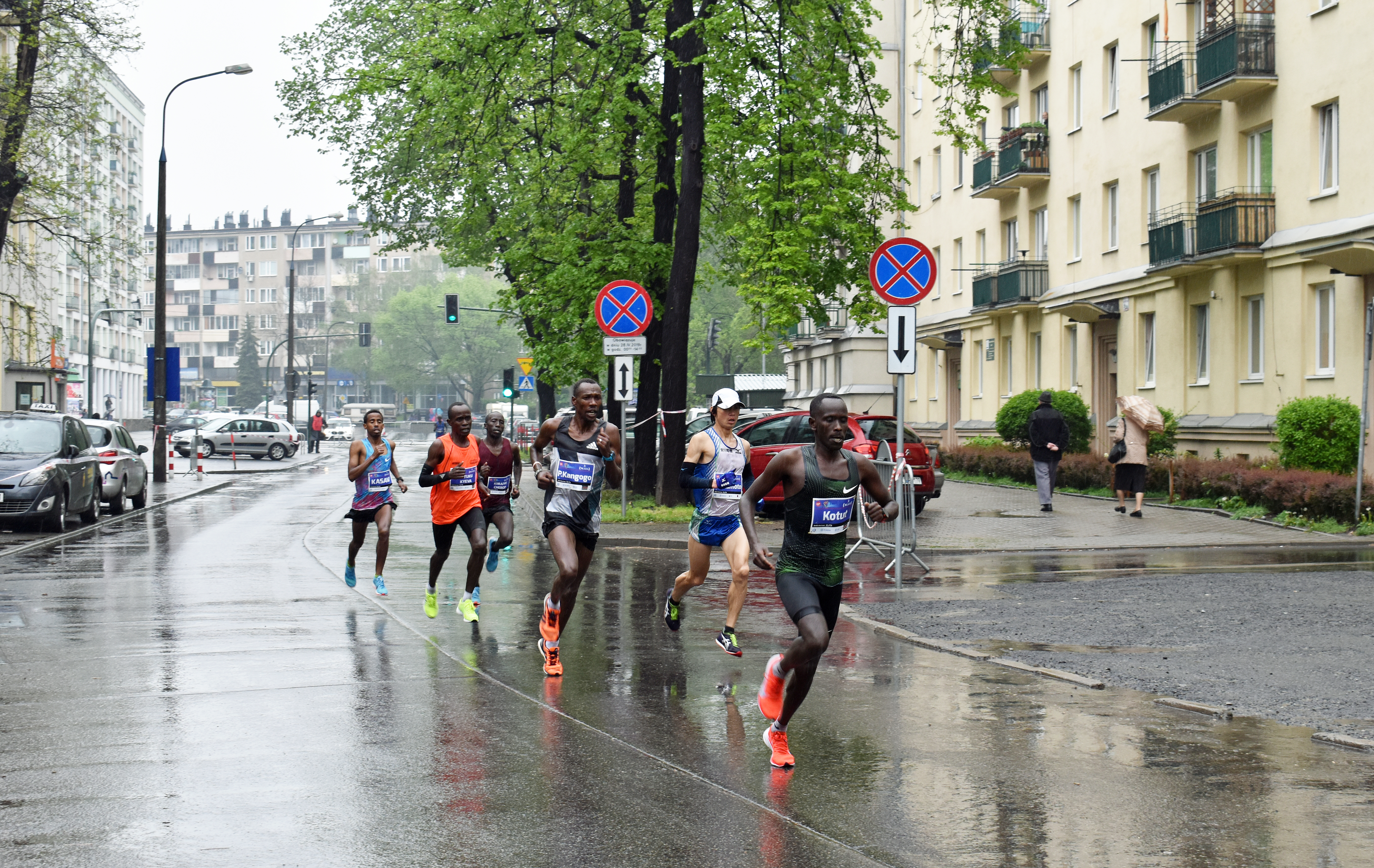 18. PZU Cracovia Marathon 2019, Mierzwy street (28 km), Nowa Huta, Krakow, Poland